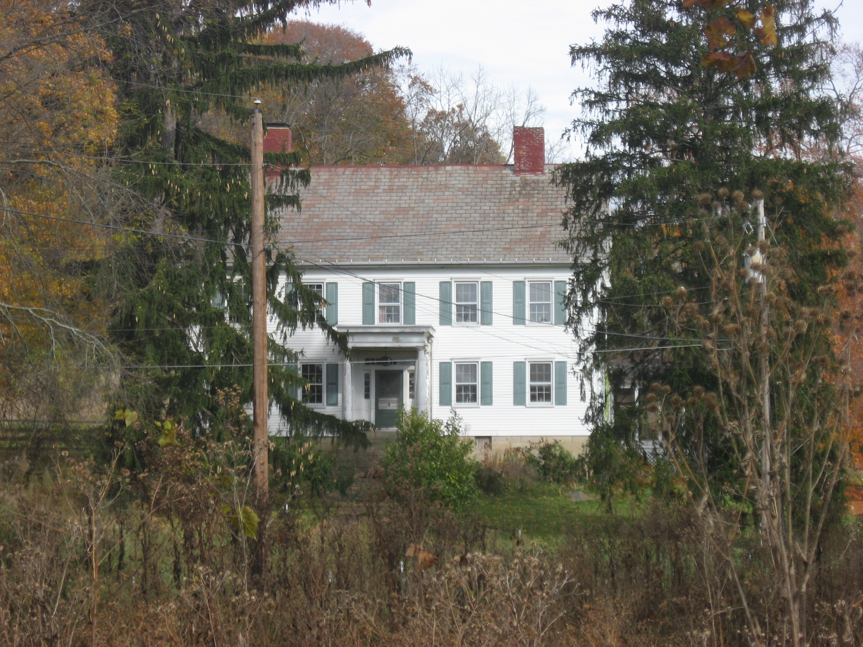 Front of the Adams-Gray House, located along Tobacco Hill Road immediately north of Adams Mills, Ohio, United States. Unusually, the house sits on top of a political division: its northern half is situated in Virginia Township in Coshocton County, while its southern half lies in Cass Township in Muskingum County. Built in 1840, it is listed on the National Register of Historic Places.